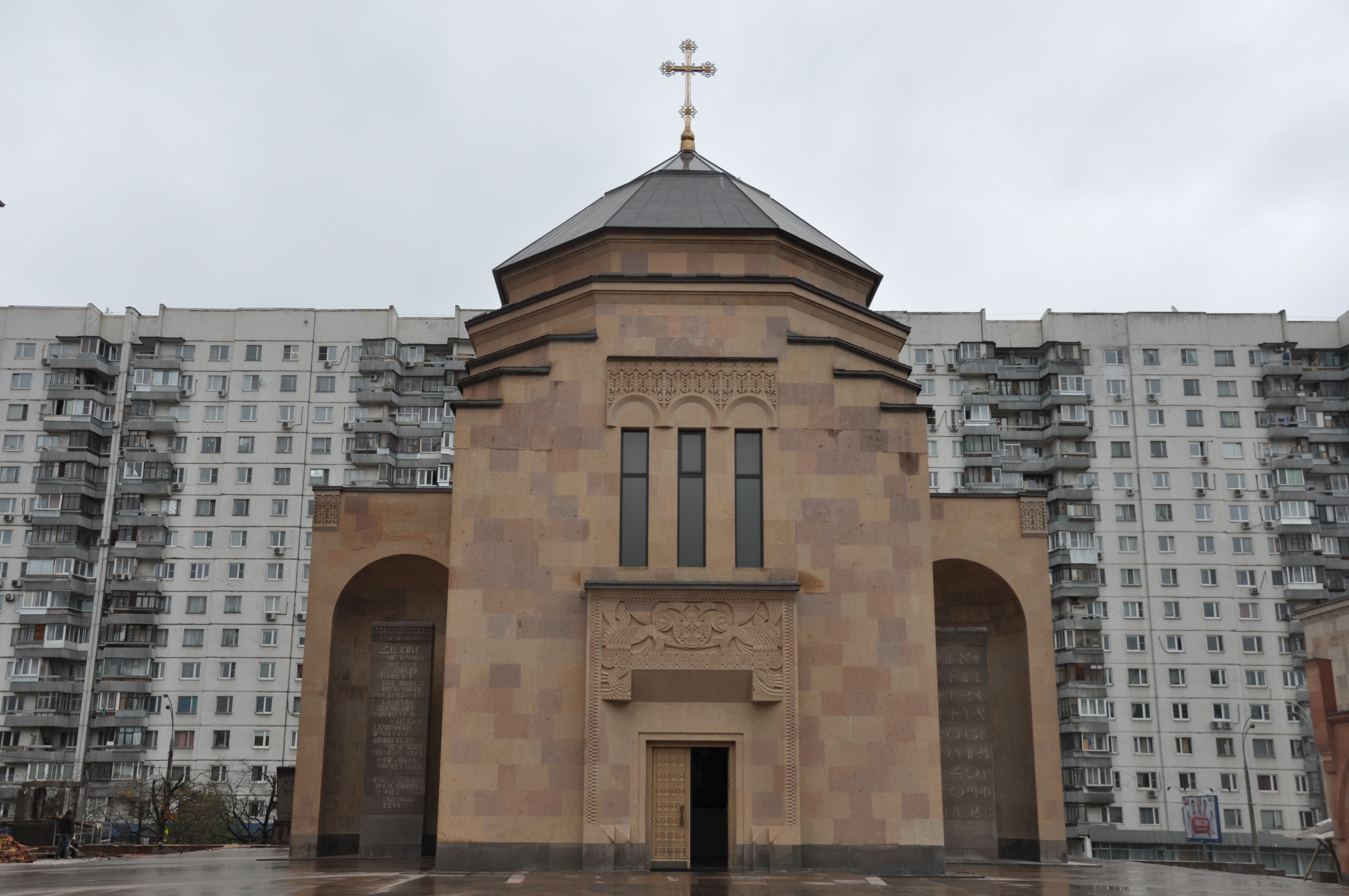 Chapel of the Armenian Apostolic Church «Surb Khach» (Holy Cross), Russia, Moscow